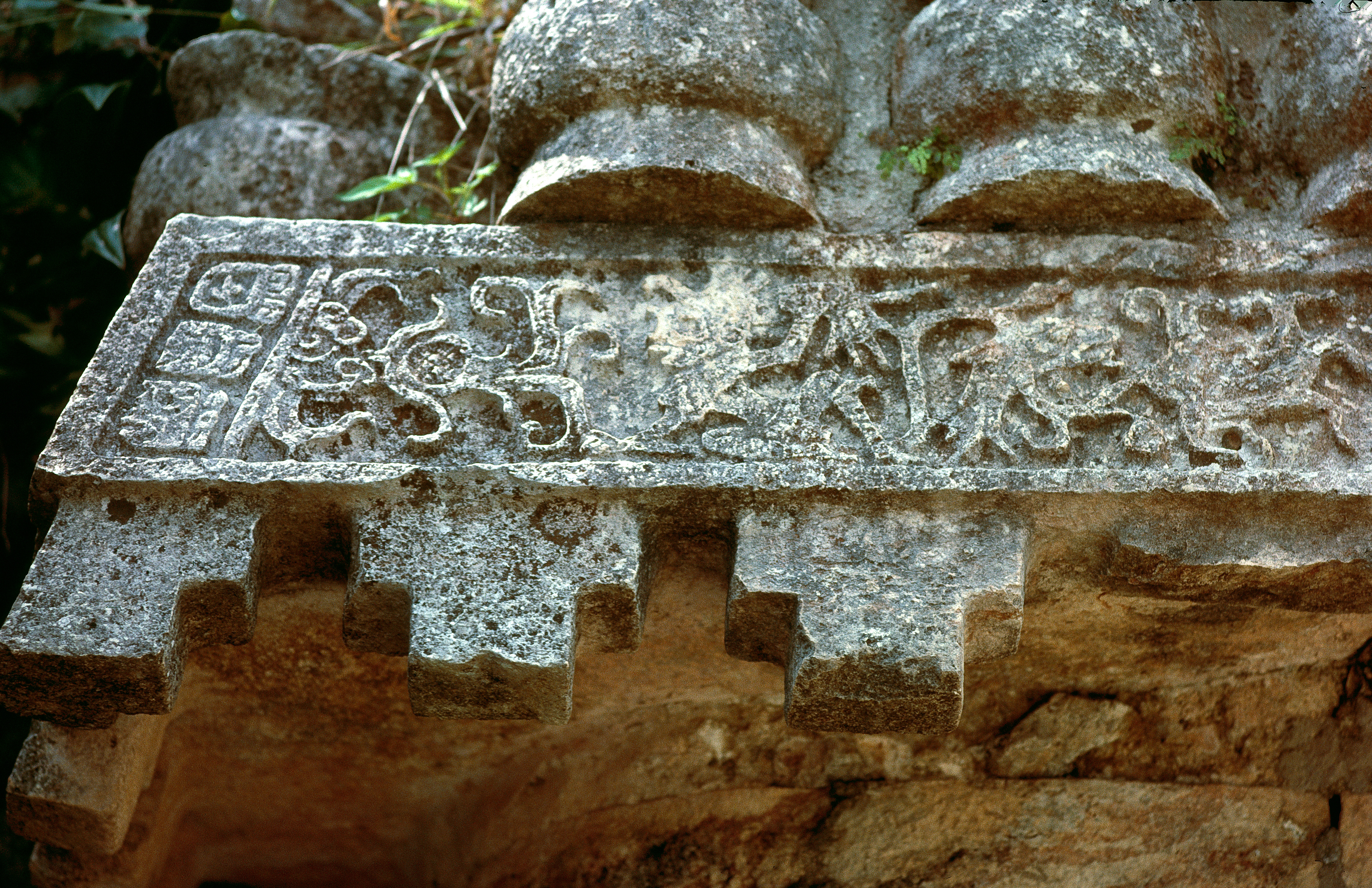 Uxmal, Adivino, Mexico: Temple I, middle molding